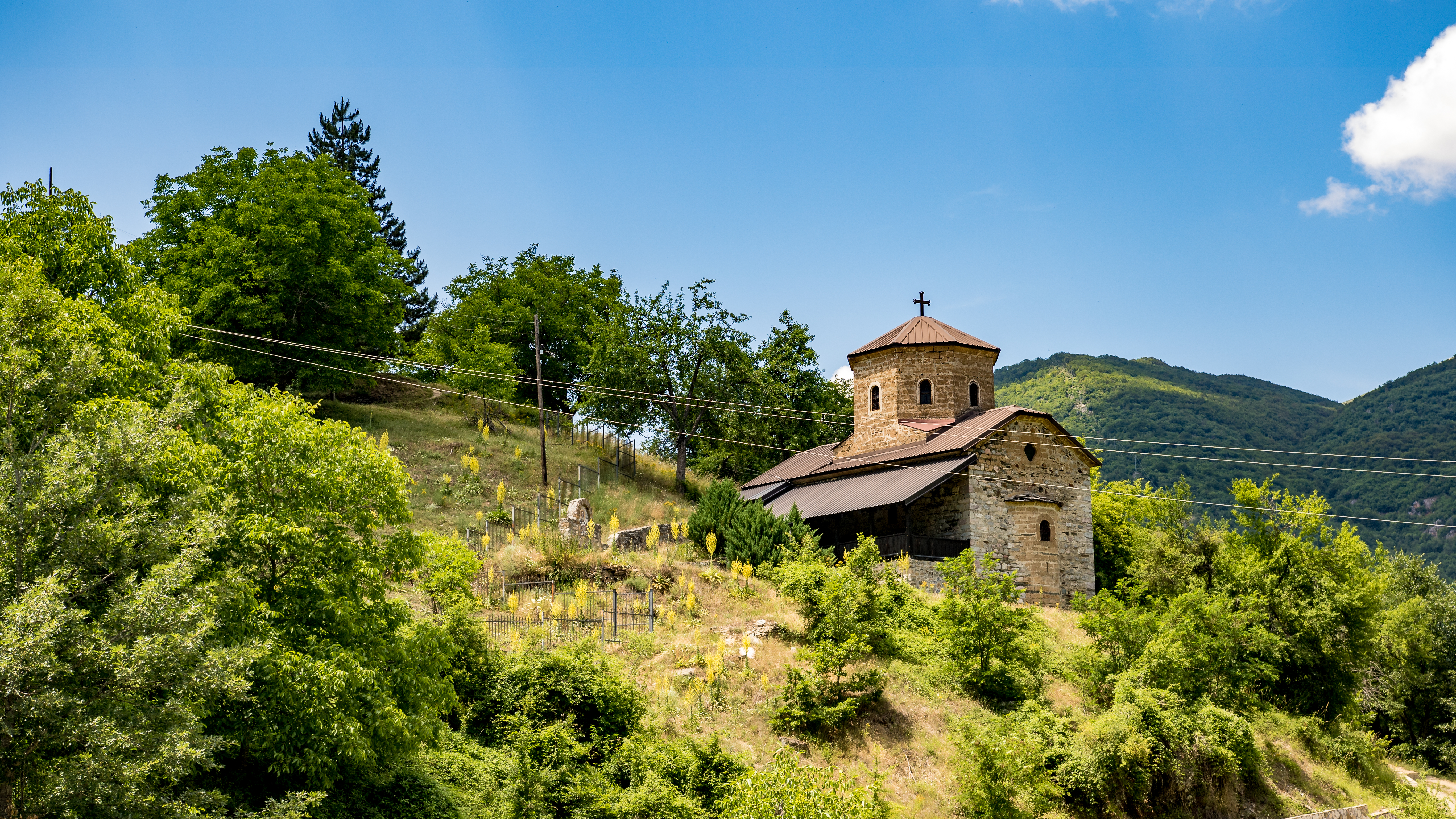 St. Nicholas Church in the village Tresonče